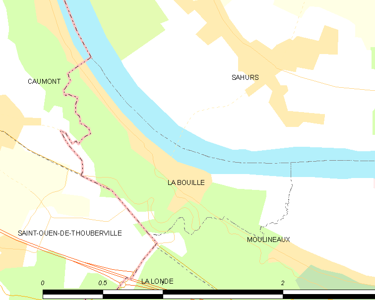 Map of French municipality La Bouille